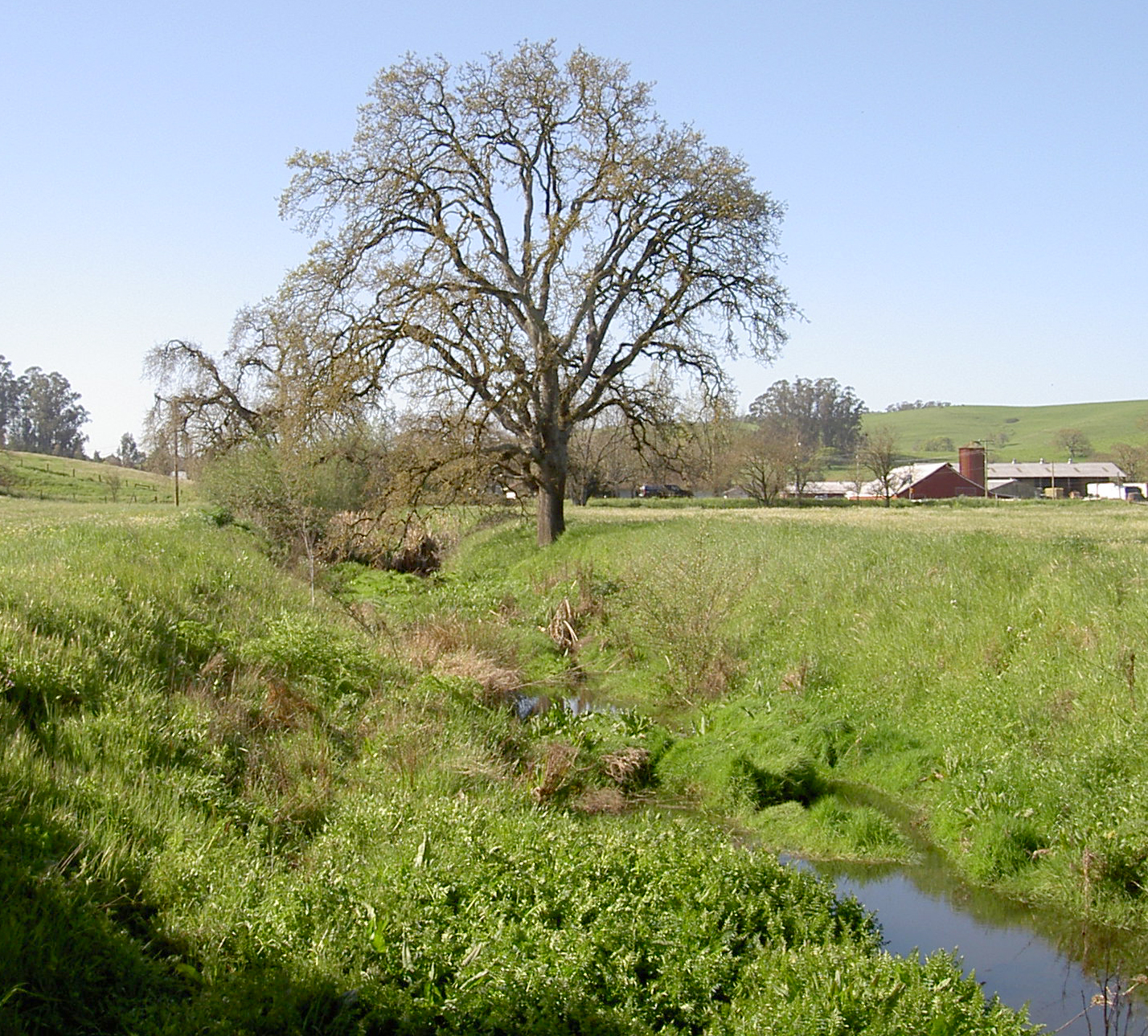 Washoe Creek, looking south from , with oak tree